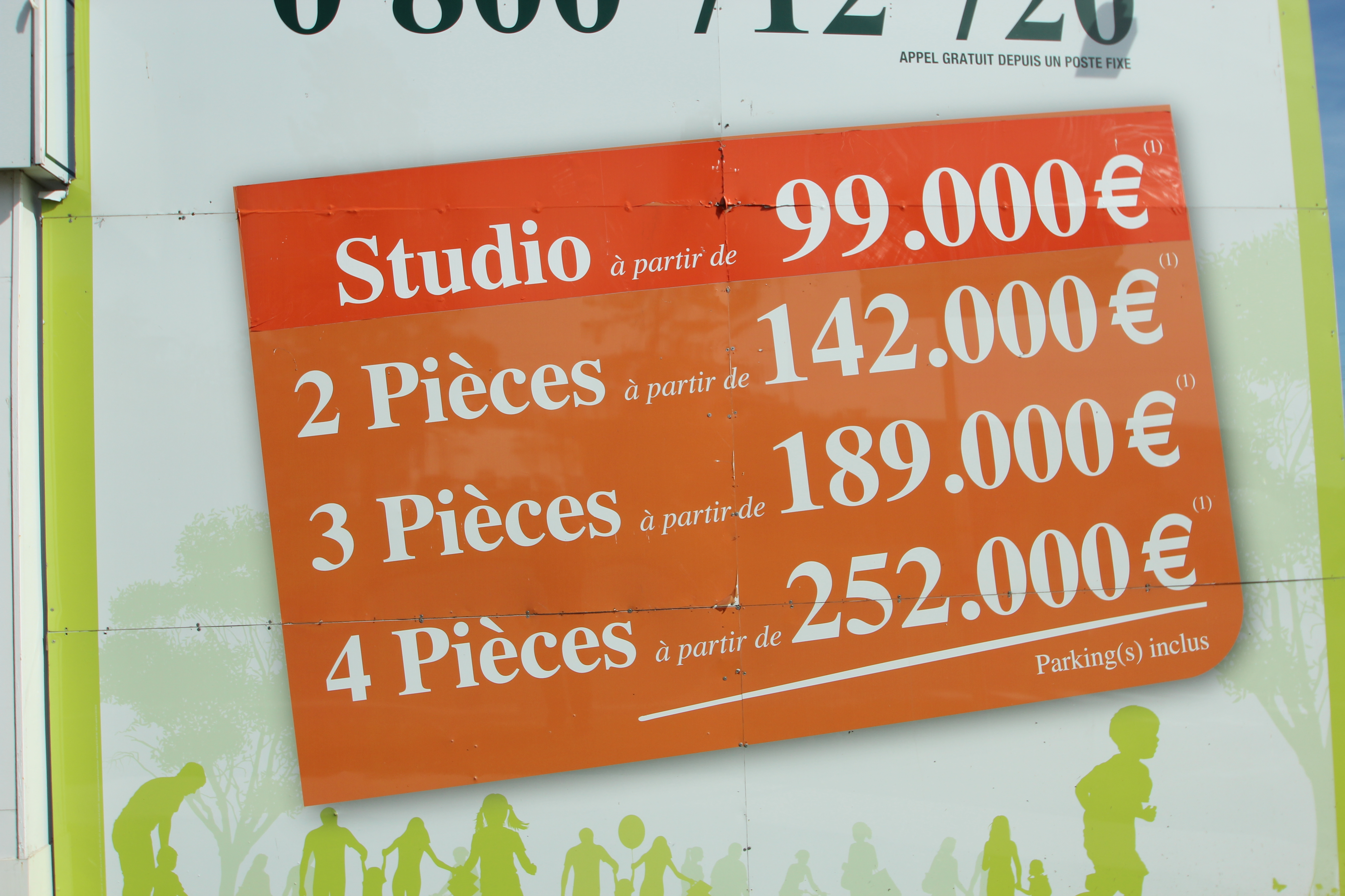 Windsor residence in Les Ulis, France.